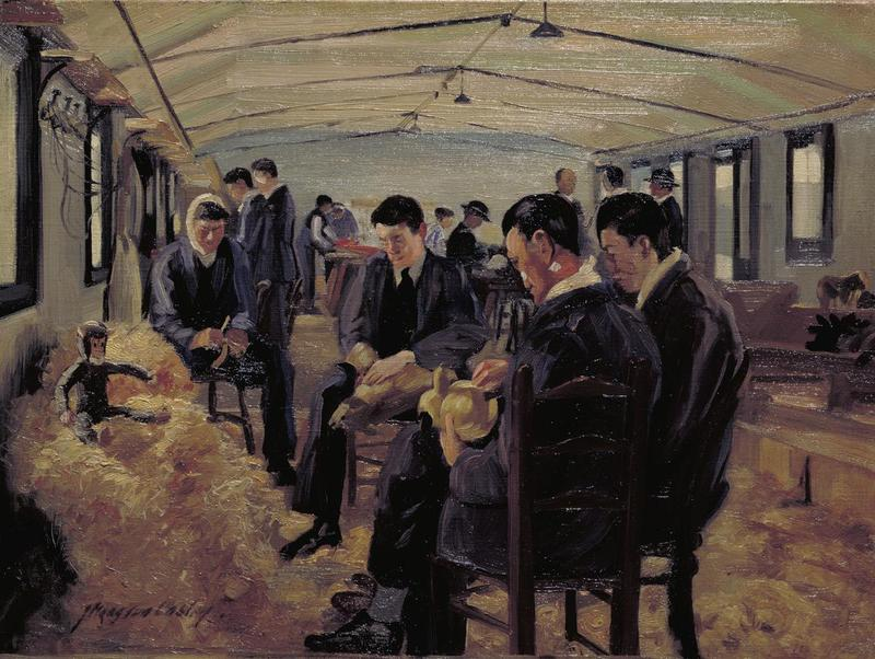 The Queen's Hospital for Facial Injuries, Frognal, Sidcup- the toy-makers' shop image: The interior of a workshop with convalescent soldiers employed in making toys. In the foreground a group of soldiers sit around a pile of sawdust, all working at stuffing a teddybear. Each of the men has a facial injury; two are missing an eye, and another has a bandage under his chin and over his head.